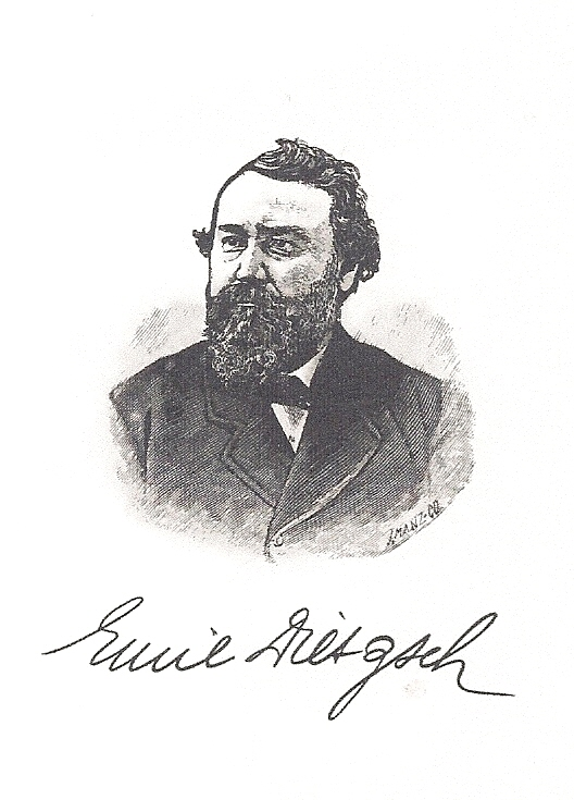 A picture of Emil Dietzsch, a copy from the book Chicagos deutsche Männer - Erinnerungsblätter an Chicagos fünfzigjähriges Jubiläum. Geschichte der Stadt Chicago, 1885, hrsg. von Max Stern und Fred Kressmann